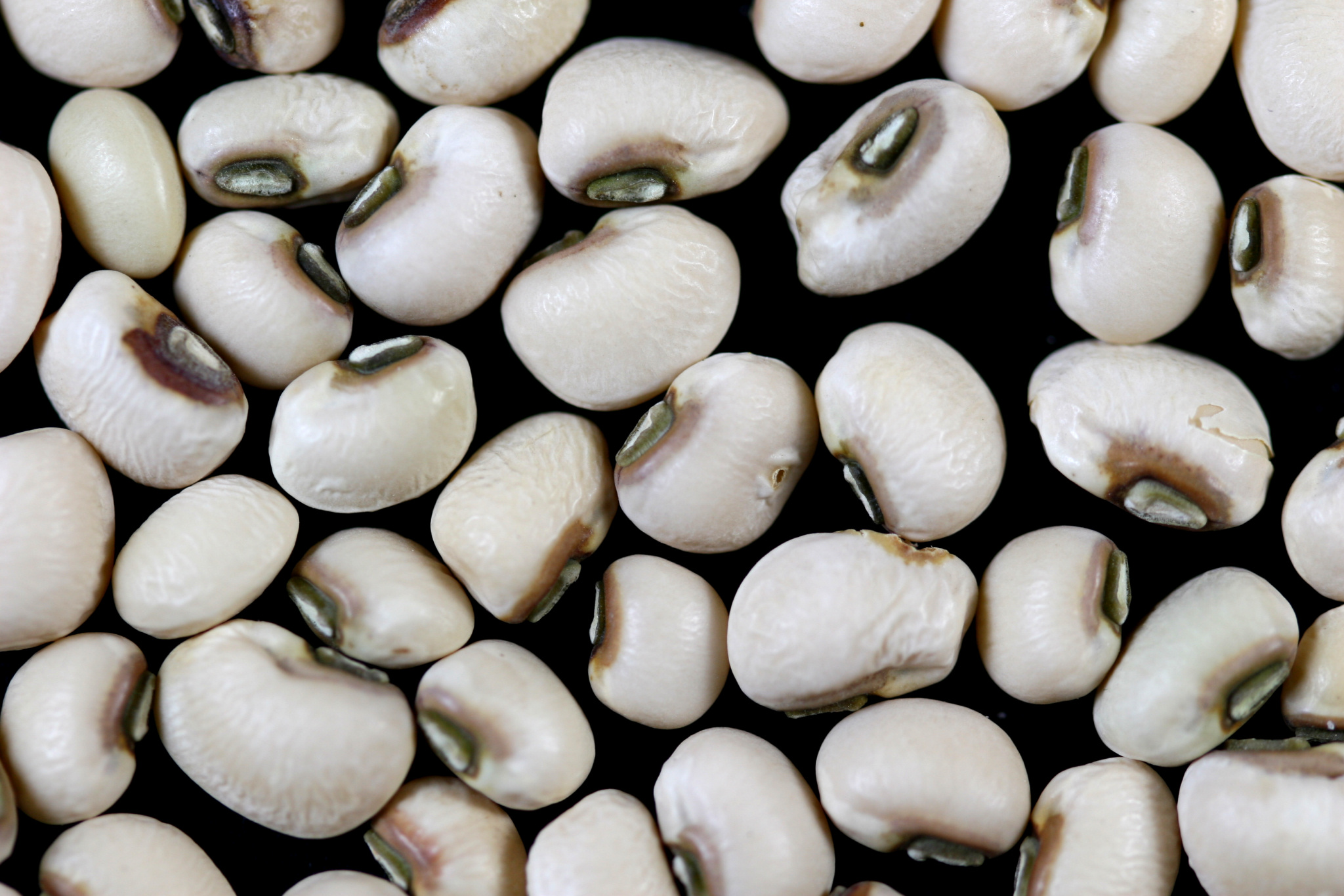 Dry Black-eyed peas